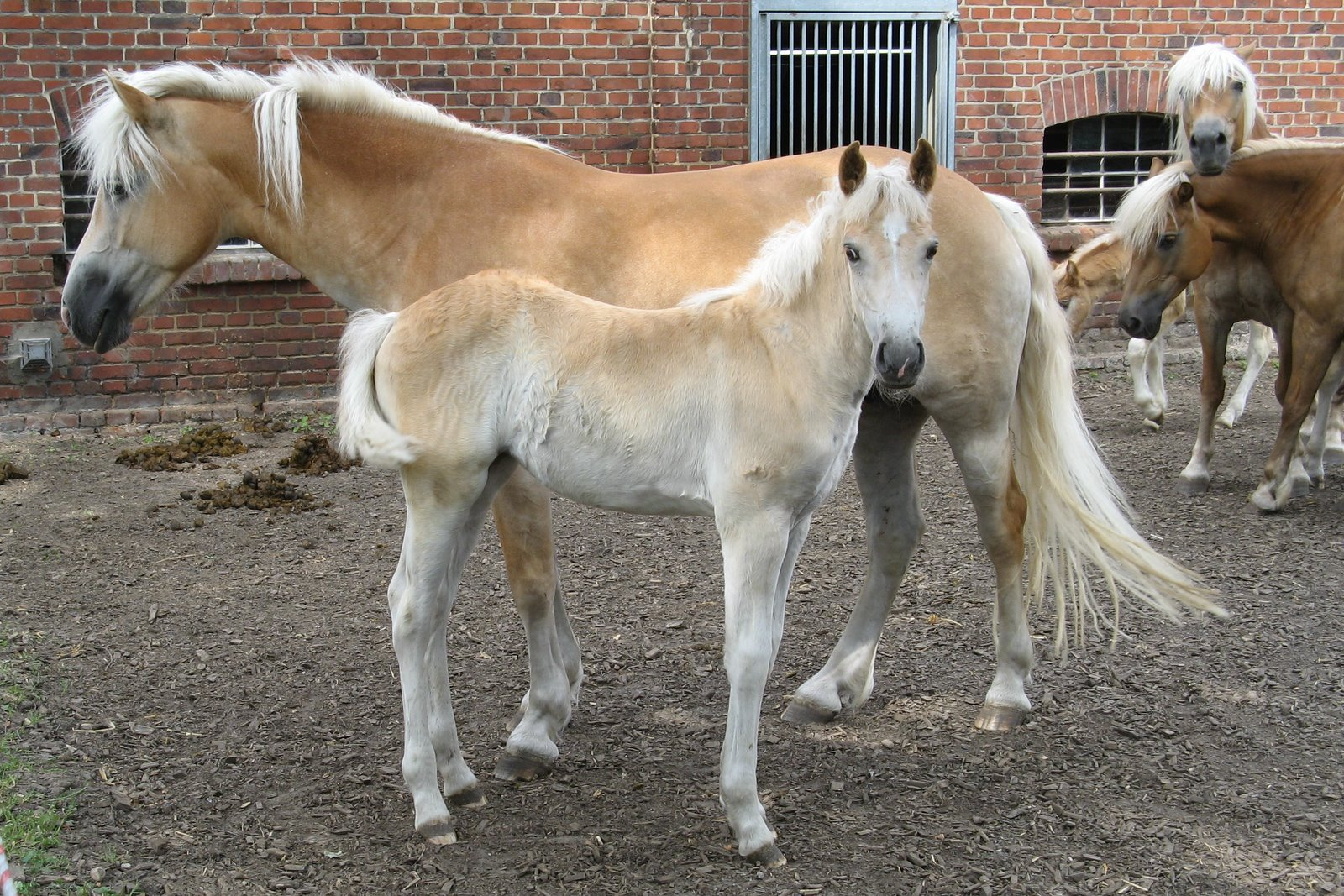 Haflinger mare Antonia with her foal Akira living at "Haflinger Westfalenfleiß Kinderhaus"